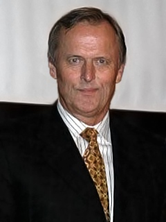 John Grisham, whose book The Innocent Man has helped bring light to wrongful convictions, was the keynote speaker at the event after receiving the Champion of Justice Award. Grisham was introduced by Dennis Fritz, whose struggle for freedom was chronicled in Grisham’s book. Seven exonerees of wrongful convictions and a best-selling legal writer were among the speakers July 15 at the Mid-Atlantic Innocence Project’s Second Annual Awards Luncheon.